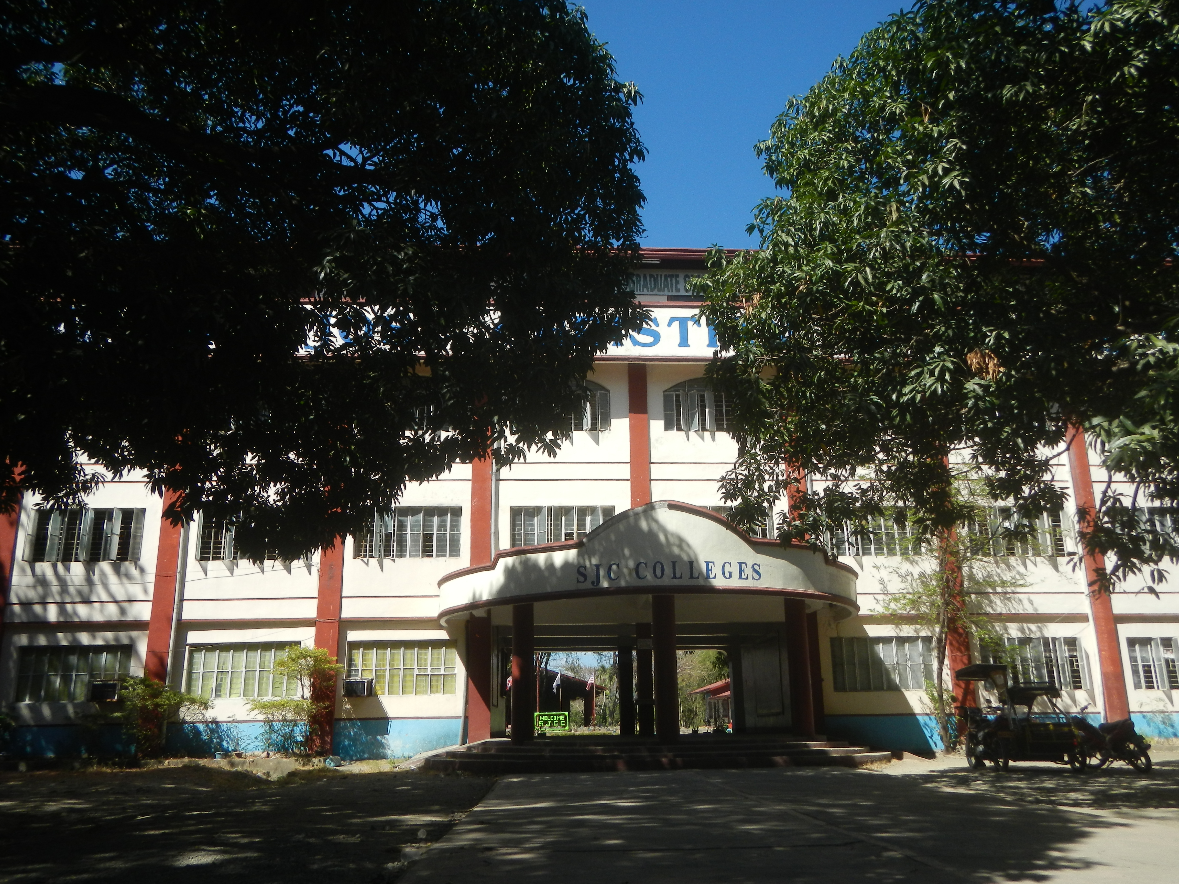 San Jose Christian Colleges Santo Niño Chapel, San Jose City San Jose - Lupao Road Lupao, Nueva Ecija Rafael Rueda, Sr. (Poblacion), San Jose City, Nueva Ecija Ferdinand E. Marcos (Poblacion), San Jose City, Nueva Ecija Pag-Asa Gymnasium, San Jose City San Jose - Lupao Road (San Jose City section) Sibul Bridge Santo Tomas-Malasin By-Pass Road Sitio from or along Maharlika Highway (Cagayan Valley Road, San Jose City, Nueva Ecija section) Category:Barangays of Nueva Ecija Barangays Santo Niño 1st, San Jose City, Nueva Ecija 15.8020, 120.9822 Santo Niño 2nd, San Jose City, Nueva Ecija 15.7995, 120.9663 Rafael Rueda, Sr. (Poblacion), San Jose City, Nueva Ecija 15.8008, 120.9912 Ferdinand E. Marcos (Poblacion), San Jose City, Nueva Ecija 15.8008, 120.9982 San Jose, Nueva Ecija Pan-Philippine Highway Philippine highway network (Note: Judge Florentino Floro, the owner, to repeat, Donor Florentino Floro of all these photos hereby donate gratuitously, freely and unconditionally Judge Floro all these photos to and for Wikimedia Commons, exclusively, for public use of the public domain, and again without any condition whatsoever).